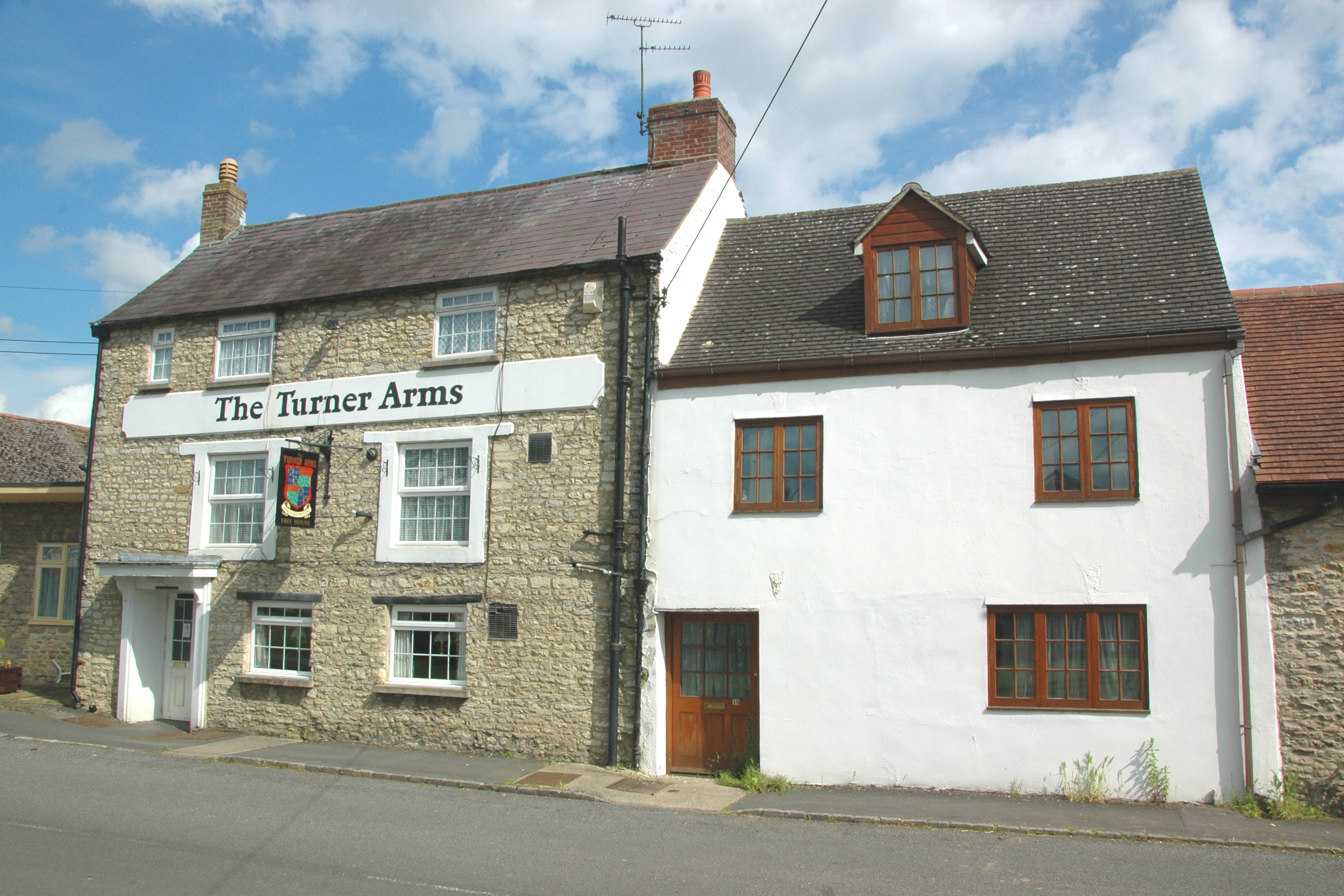 Turner Arms public house, Merton Road, Ambrosden, Oxfordshire